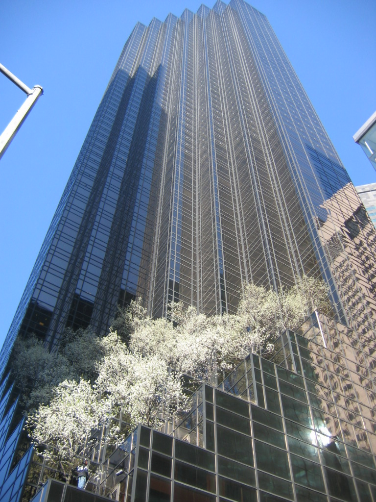 Trump Tower seen from 5th Avenue, New York City